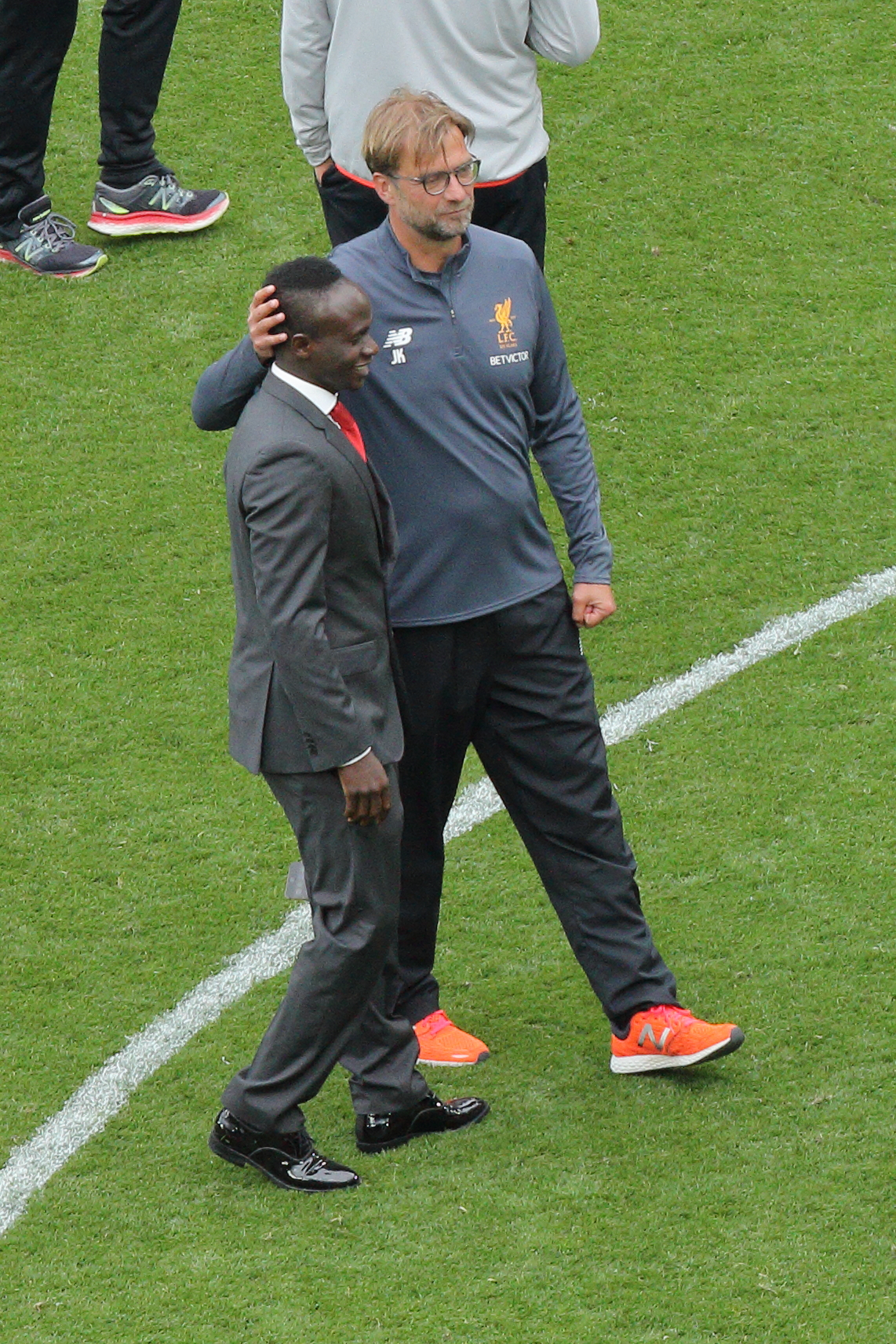 Klopp and Mane